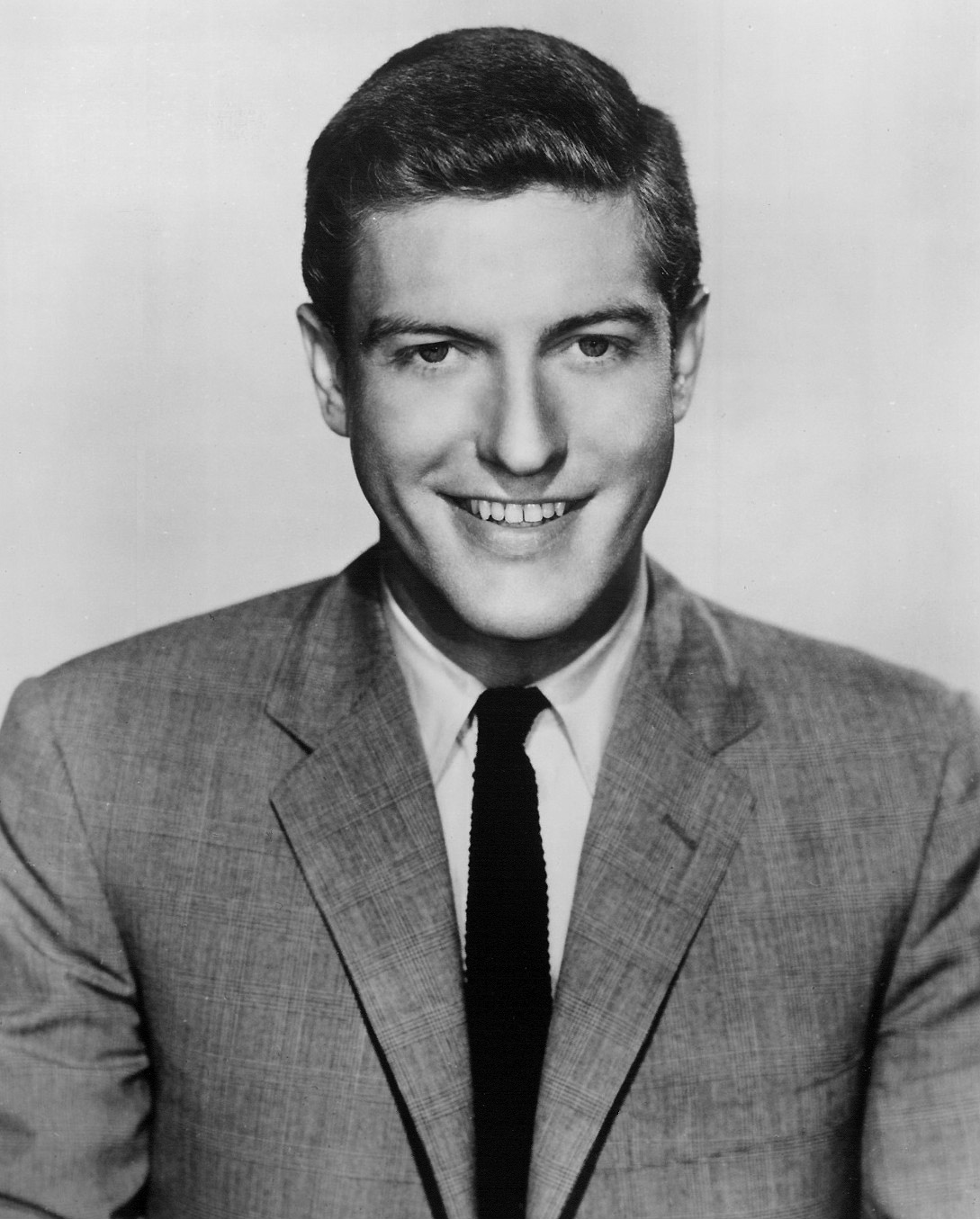 Photo of Dick Van Dyke.